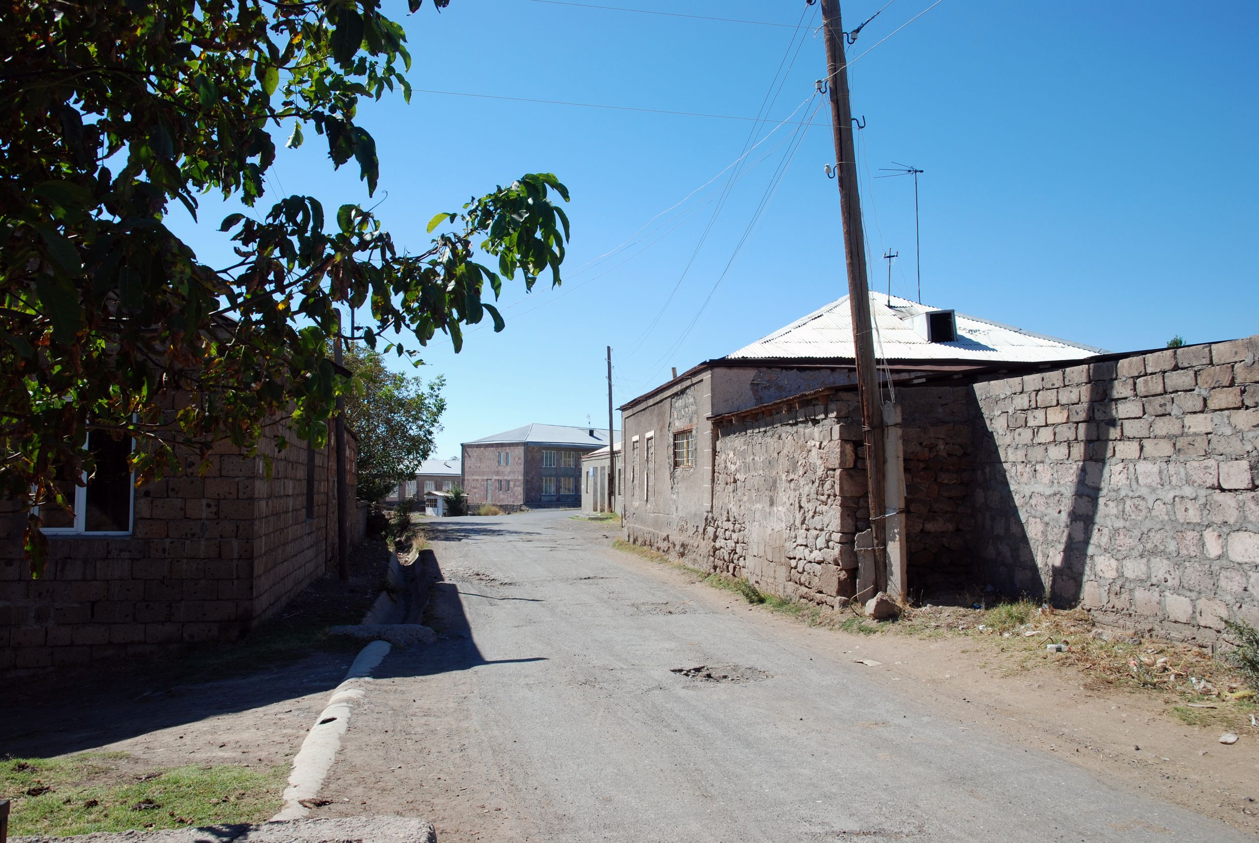 Aruch village